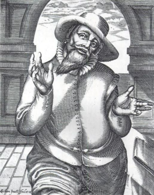 German Anabaptist Adam Pastor (16th century); Gravure by Christoffel van Sichem